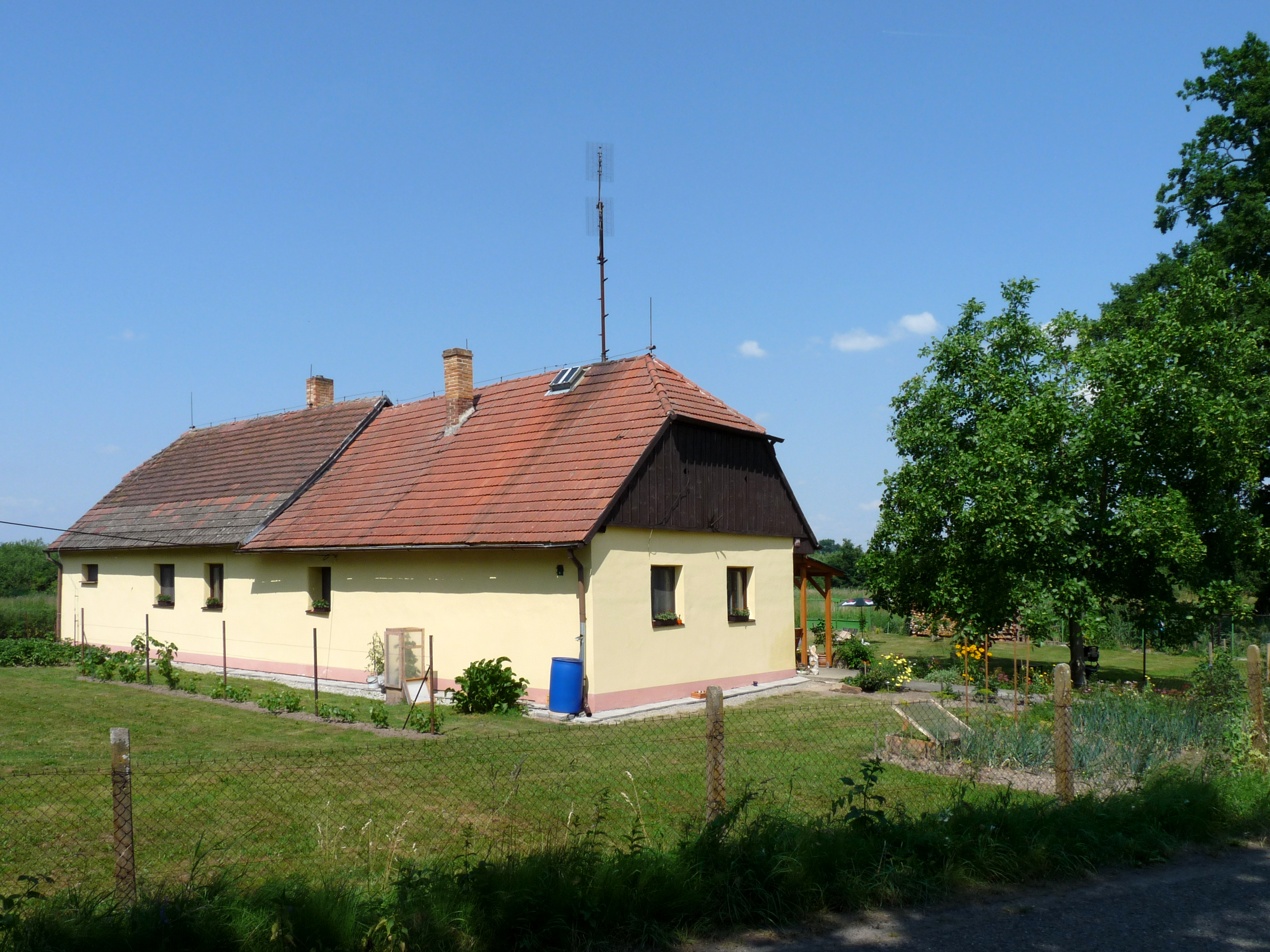 House No 2016 at Starohaklovský pond between the villages of Nové Dvory and Haklovy Dvory, České Budějovice District, South Bohemian Region, Czech Republic.